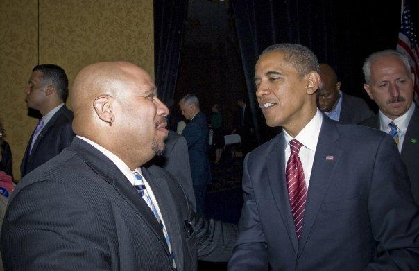 Ralph Remington with Senator Barack Obama to dramatically increase funding for albinism awareness and pass Bill HR40